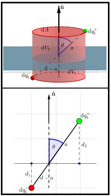 Surface Integral Polarization